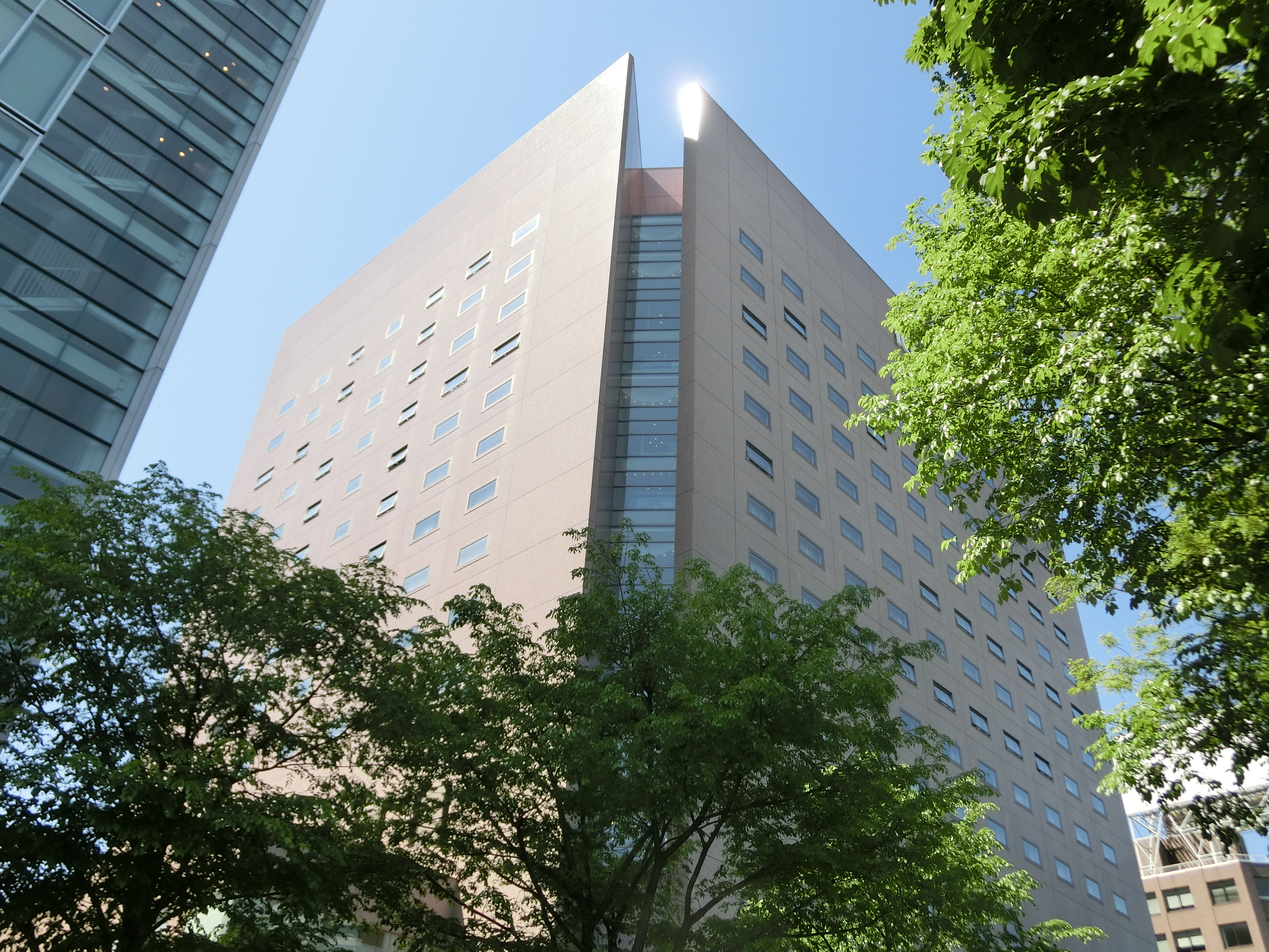 Tokyo Dome Hotel Sapporo